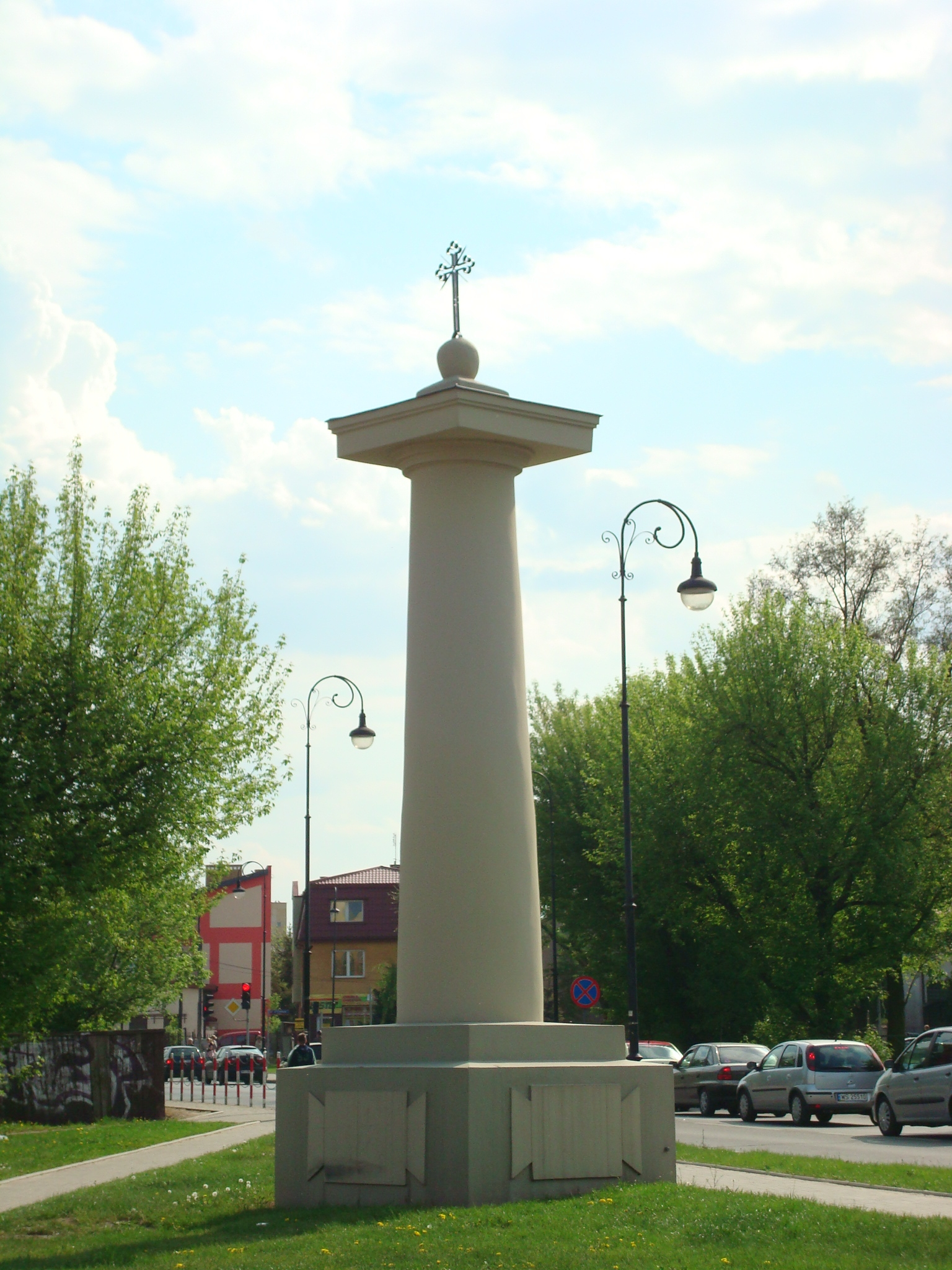 Column of toskan in Siedlce